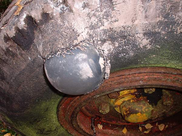 Picture of a failure in the sidewall of an excavator tire. Photographed by Chris Tidy. Category:Hernia images